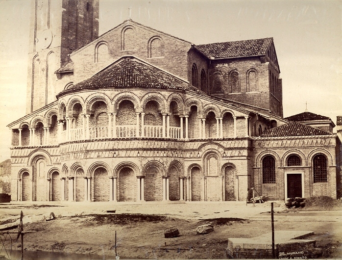 Apse of Santa Maria e San Donato a Murano church. Catalogue # 216.